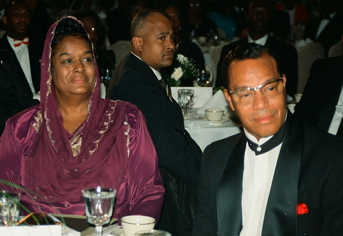 Baltimore M.D. November 23, 1996